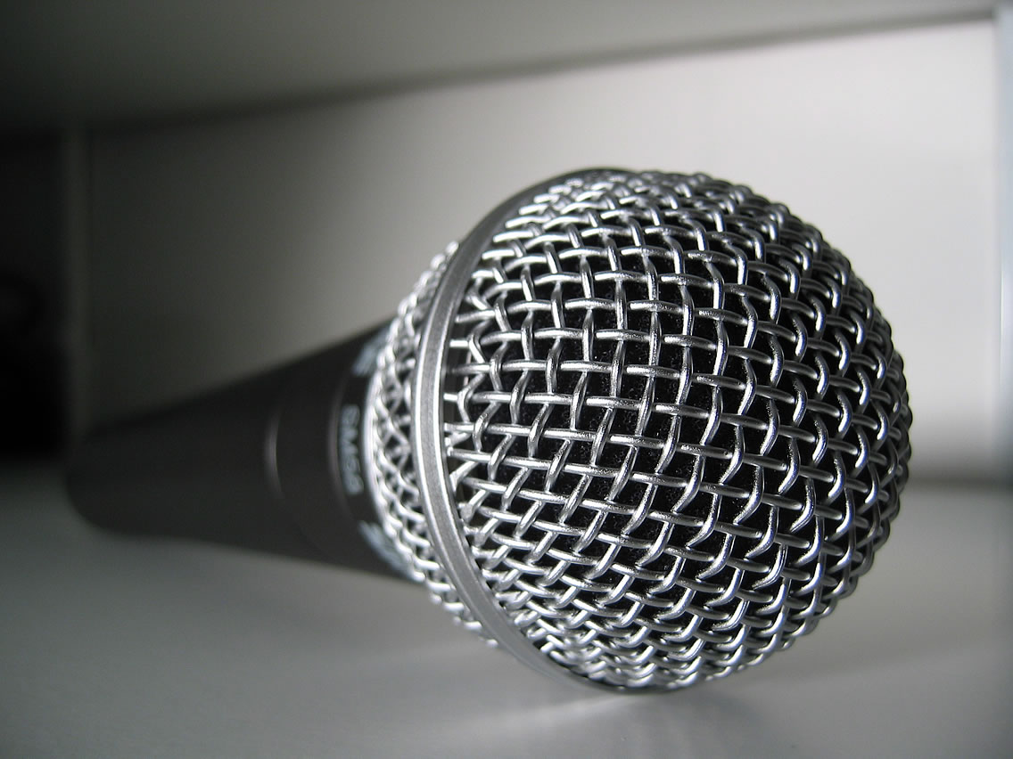 Shure SM58 microphone